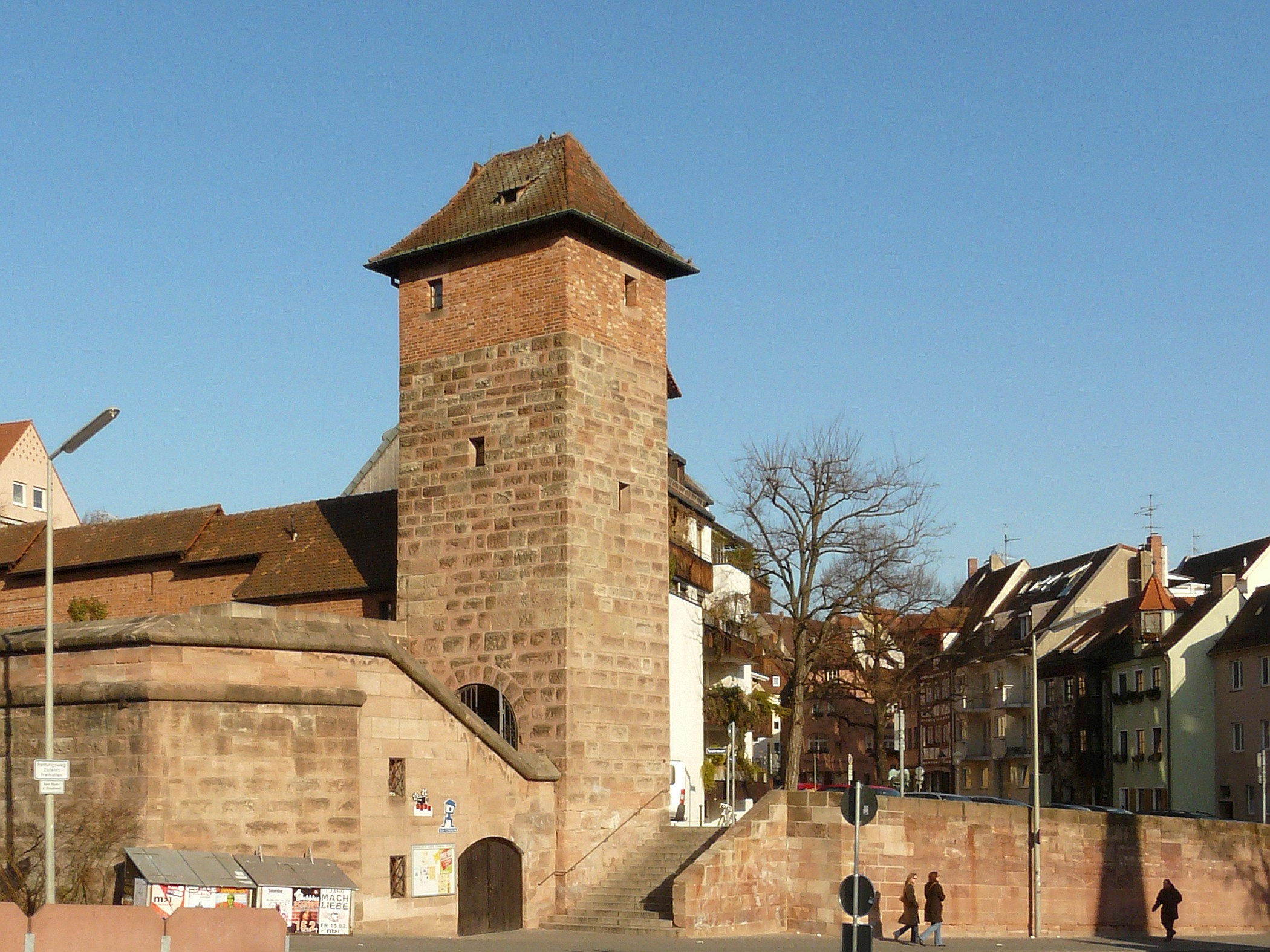 Nuremberg, Hallertor